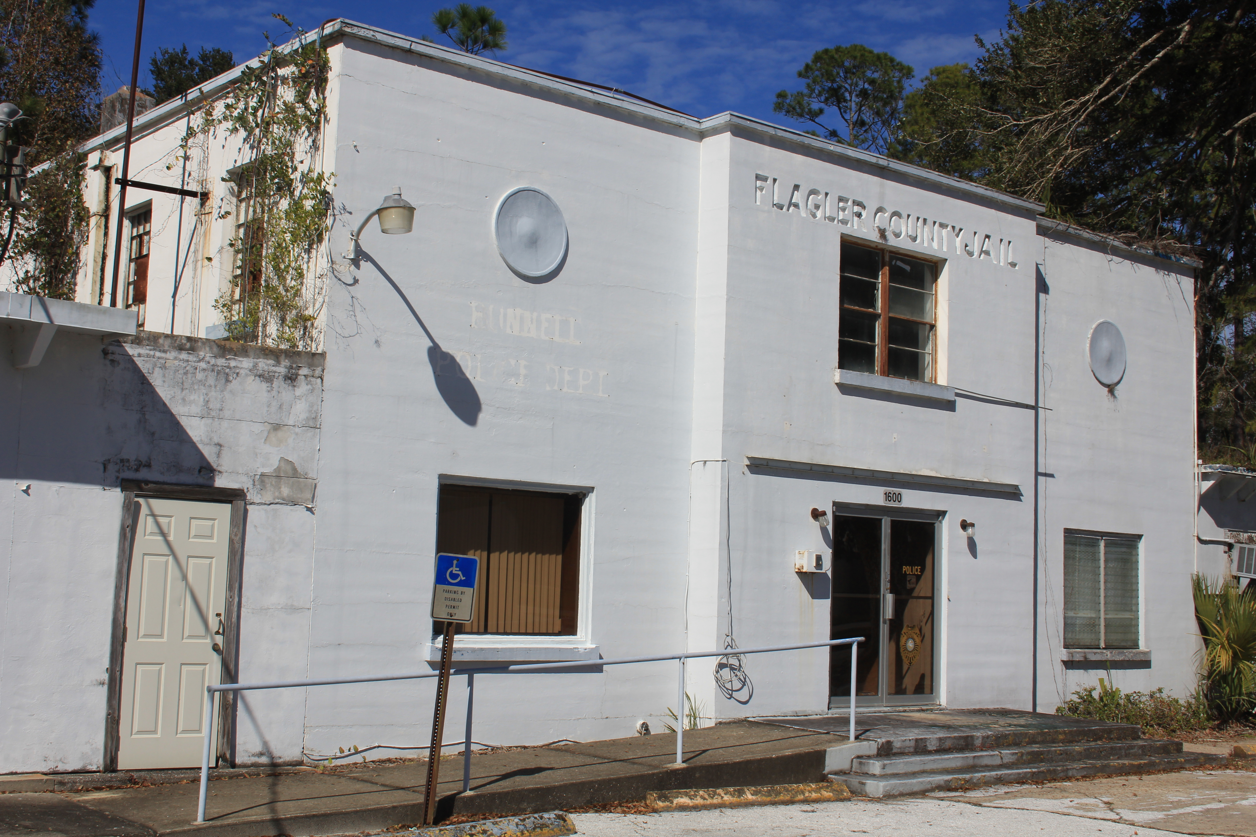 Photograph of the WPA-Built Flagler County Jail - Front - West - Central View